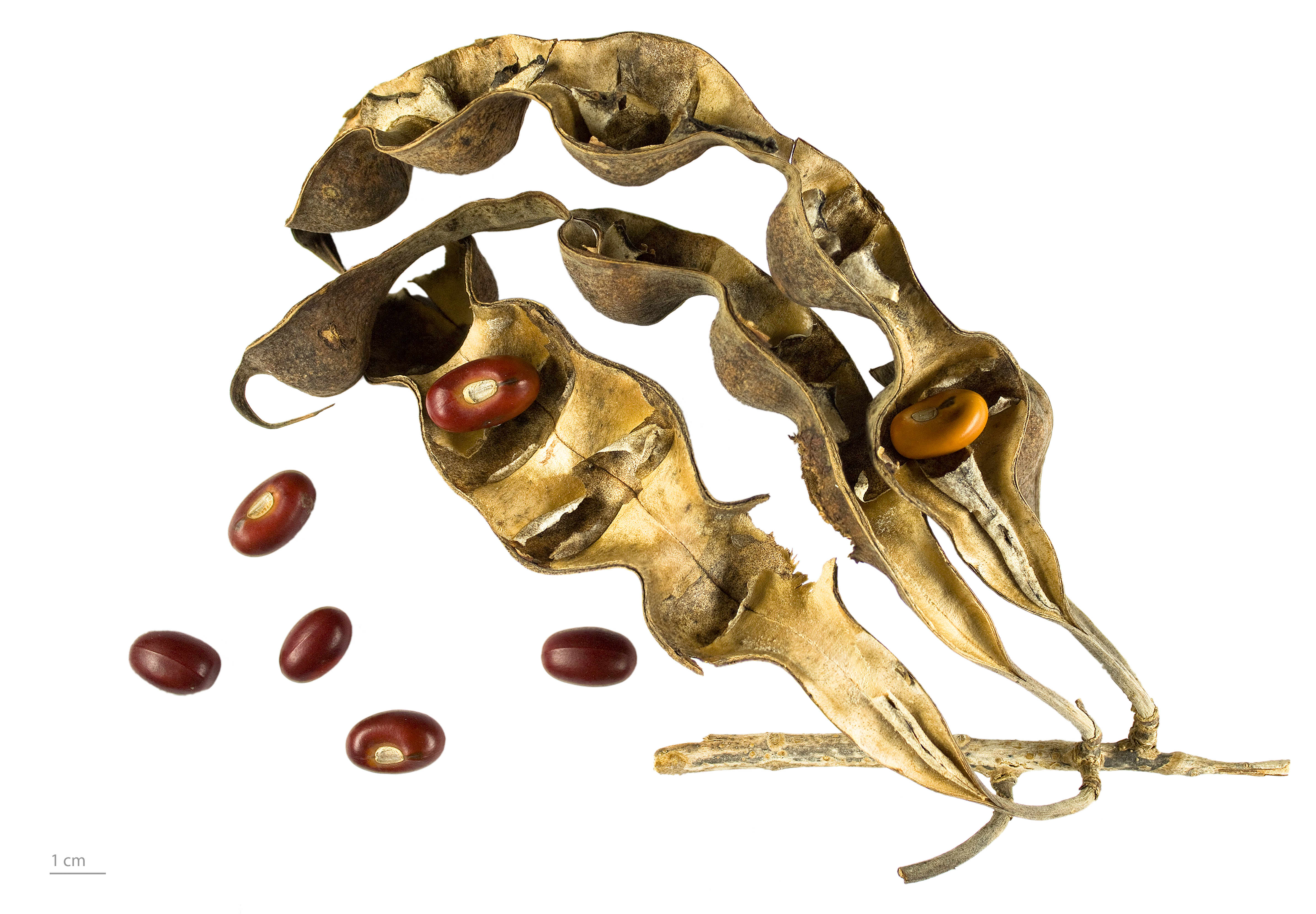 Coral Bean, fruits and seeds